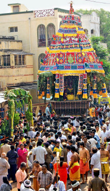 ther thiruvila